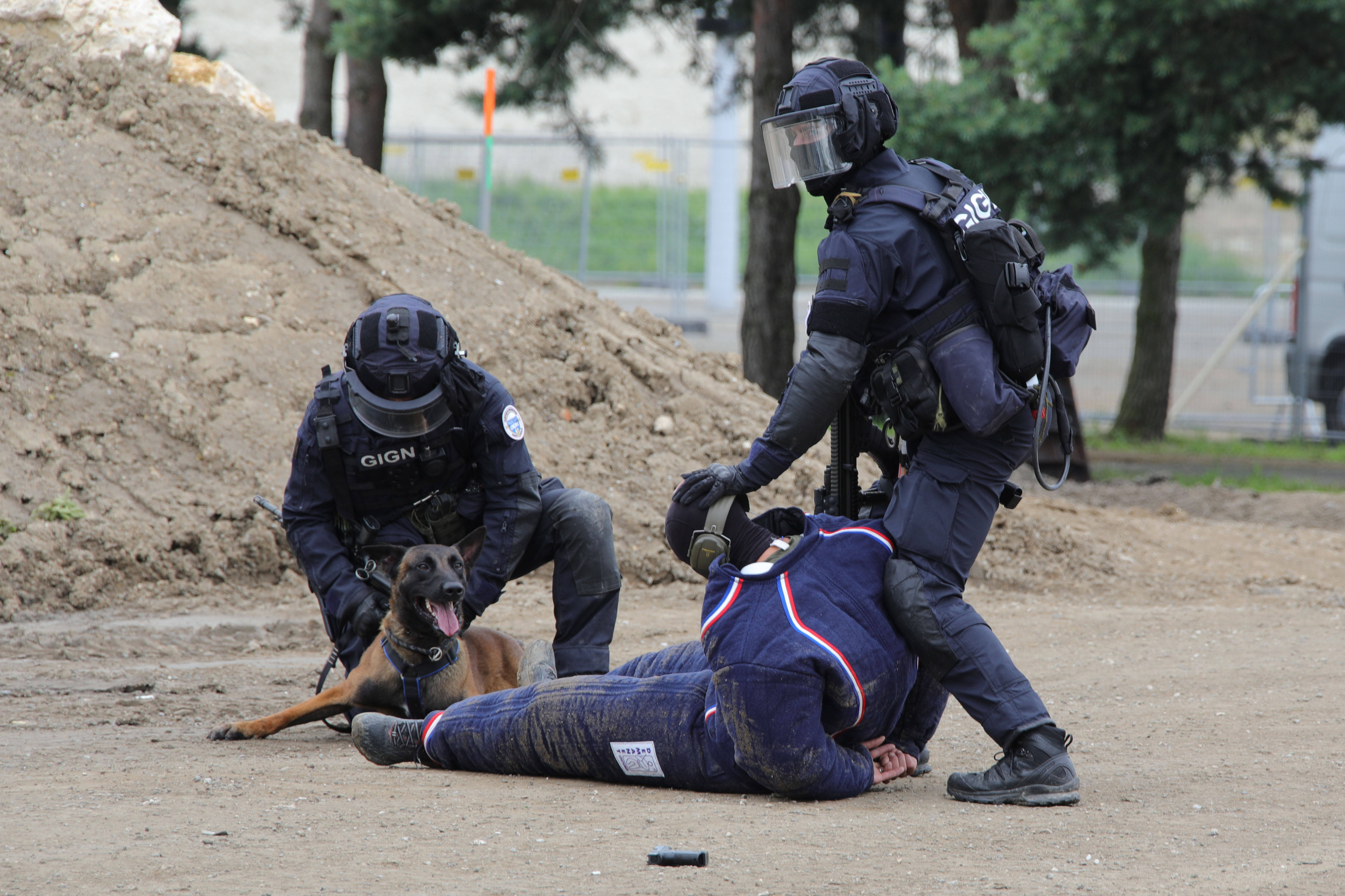 GIGN attack dog and operators during a demo. June 2018